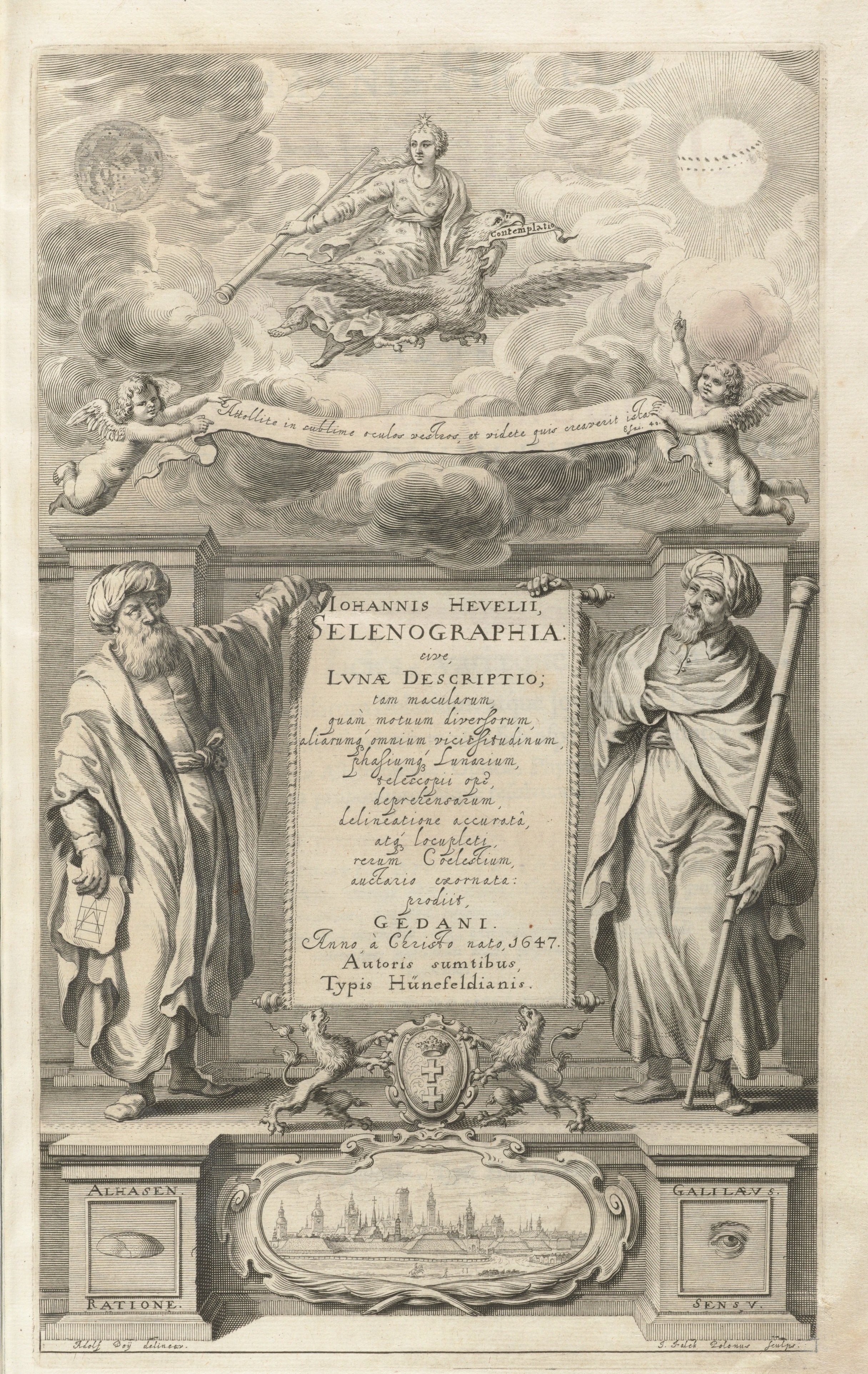 Title page from Selenographia, sive, Lunae descriptio, 1647, by Johannes Hevelius (1611-1687). Typ 620.47.452, Houghton Library, Harvard University